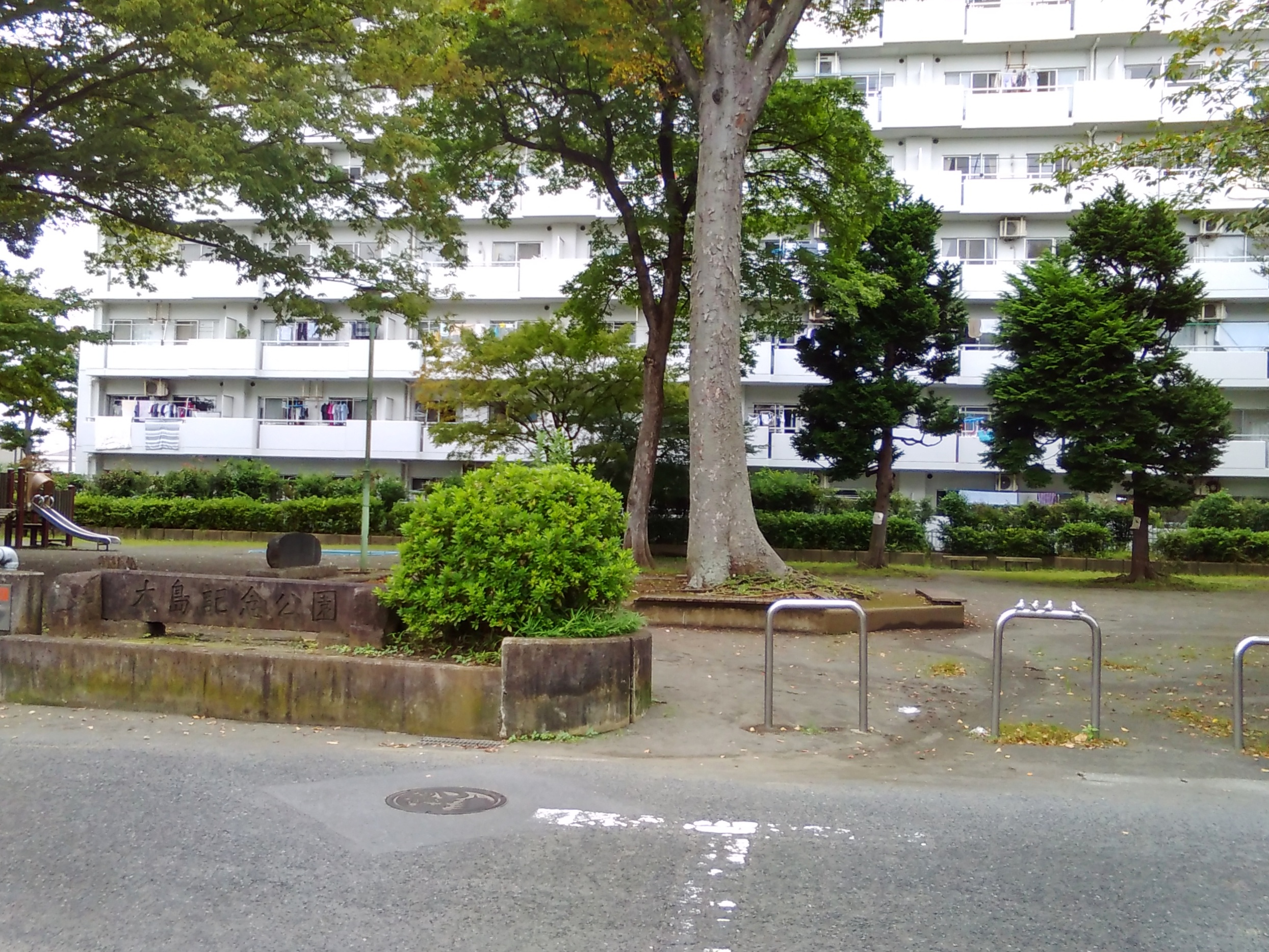 Oshima Memorial Park in Nakashinden, Ebina, Kanagawa, Japan. In this park was the birthplace of Masatake Oshima (1859 - 1938), one of the students taught by William Smith Clark at Sapporo Agricultural College.